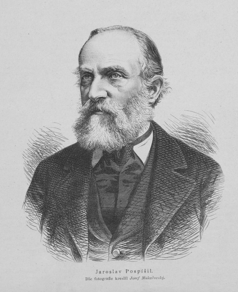 Portrait of Jaroslav Pospíšil (1812-1889), Czech publisher